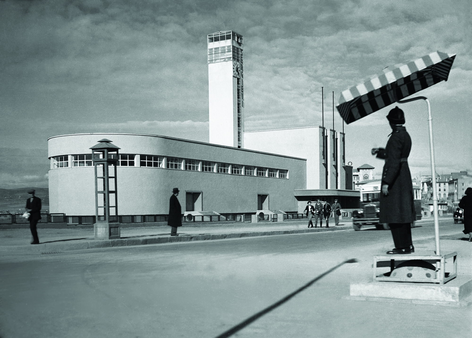 In 1933, the National Economy and Savings Association decided to construct an exhibition building for displaying national products and organized an international contest for possible projects. A Turkish architect was awarded with the project. The work of Şevki Balmumcu was very unique; it was specifically designed for exhibitions. The young architect said the following regarding his work: “A visitor does not walk in right angles while touring an exhibition. Thus, I designed an oval hall.”(2) The Exhibition House of Ankara was inaugurated on October 29, 1934, during the 11th anniversary of the foundation of the Republic. Its inauguration was marked by an important event: The Industry Exhibition which stayed open for three weeks. 90 thousand people visited the exhibition. Atatürk Bulvarı, Sergi Evi, 1934. 1929’da kurulan Millî İktisat ve Tasarruf Cemiyeti, “Halkı israfla mücadeleye, hesaplı, tutumlu yaşamaya ve tasarrufa alıştırmak; yerli mallarını tanıtmak, sevdirmek ve kullandırmak; yerli mallarımızın miktarını yükseltmeye, metanet ve zarafet itibariyle hariçteki mümasili mallar derecesine getirmeğe ve fiyatlarını ucuzlatmağa çalışmak; yerli mallarımızın sürümünü arttırmak” amacıyla çalışıyordu. (1) 1933 yılında Cemiyet, yerli malların sergileneceği bir sergi binası yapılmasını karar altına aldı ve uluslararası bir yarışma düzenledi. Yarışmada bir Türk mimarının projesi başarılı bulundu. Şevki (Balmumcu) Bey’in tasarımı çok özel bir eserdi. Ve sadece sergiler için düşünülmüş, tasarlanmıştı. Şu sözler, genç mimarındır: “İnsan sergi gezerken 90 derecelik açı ile dönüş yapmaz. Onun için salonu dairesel yaptım.” (2) Ankara’nın Sergievi, Cumhuriyet’in 11. yıldönümünde, 29 Ekim 1934 günü açıldı. Açılışında önemli bir etkinlik vardı: Sanayi Sergisi. Üç hafta açık kaldı. 90 bin kişi gezdi. 1 Gökhan Akçura, Türkiye Sergicilik ve Fuarcılık Tarihi, İstanbul 2009, s. 122. 2 Gökhan Akçura, age, s. 125.